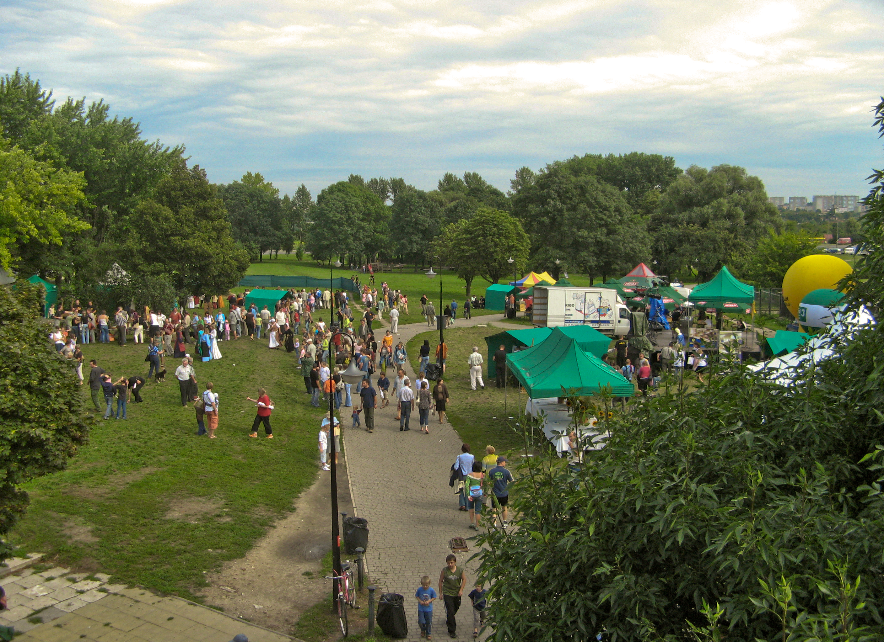 The Lublin Castle Greens during the Jagiellonian Fair.